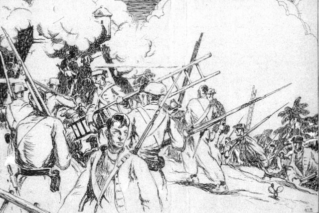 William Gooch's American Marines in the attack on Fort San Lazaro at Cartagena in 1741, ink drawing by Arman Manookian, Honolulu Academy of Arts